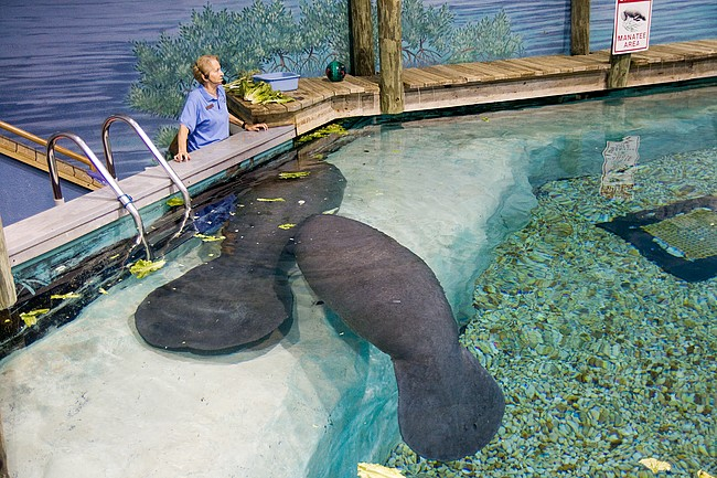 Snooty, a Florida manatee (Trichechus manatus latirostris), and friend on the occasion of his 60th birthday, July 2008, Parker Manatee Aquarium, South Florida Museum, USA.